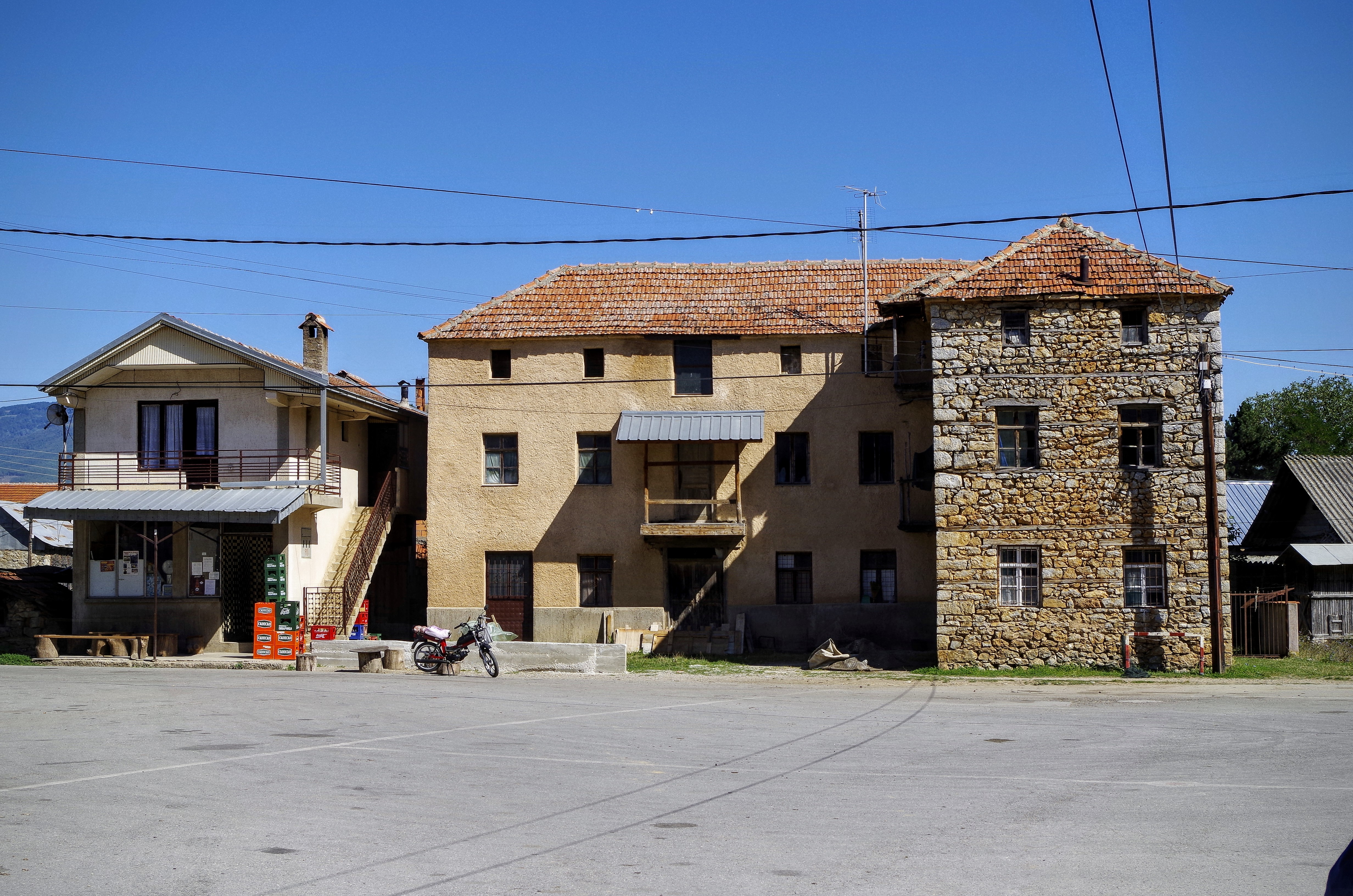 View of the center of the village Zlesti, Macedonia